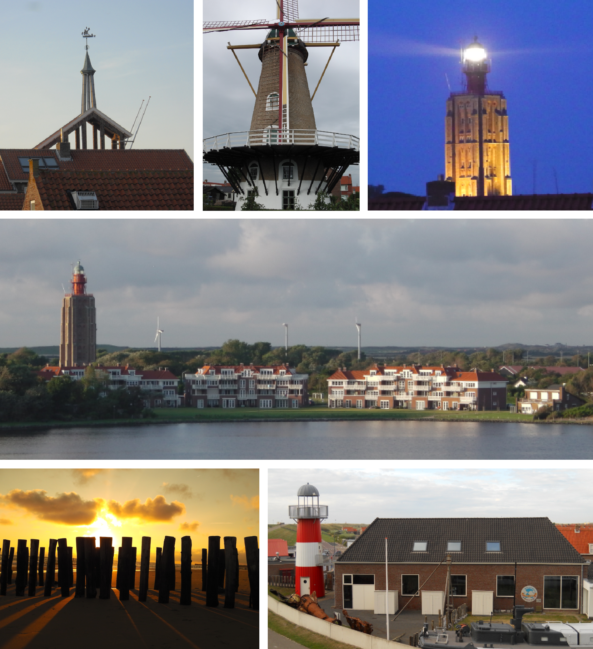 All photos are my own work